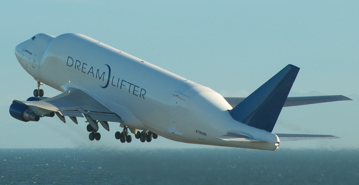 Boeing 747-LCF -- Also known as Boeing Dreamlifter